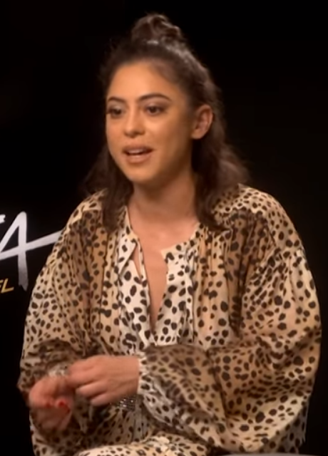 Rosa Salazar and the cast of sci-fi epic Alita: Battle Angel play a hilarious game of SNOG, MARRY, AVOID: CYBORG EDITION, and give us all their behind the scenes goss on the unique way they filmed the blockbuster.